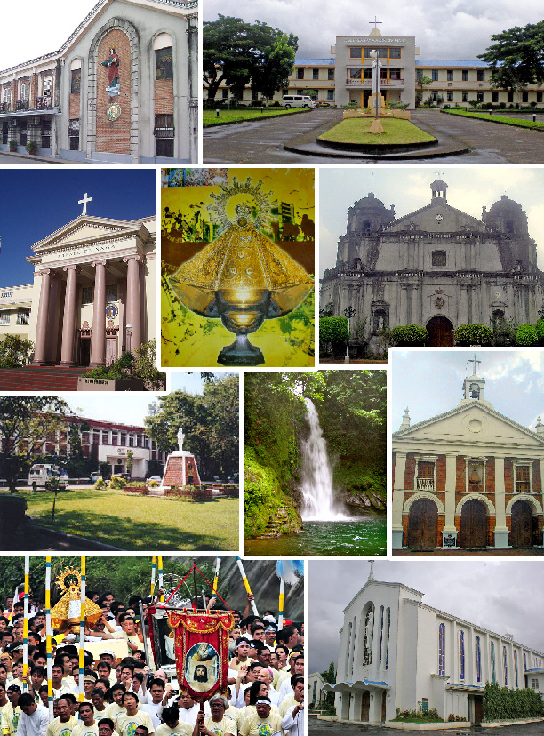 Montage of sites in Naga City, Camarines Sute